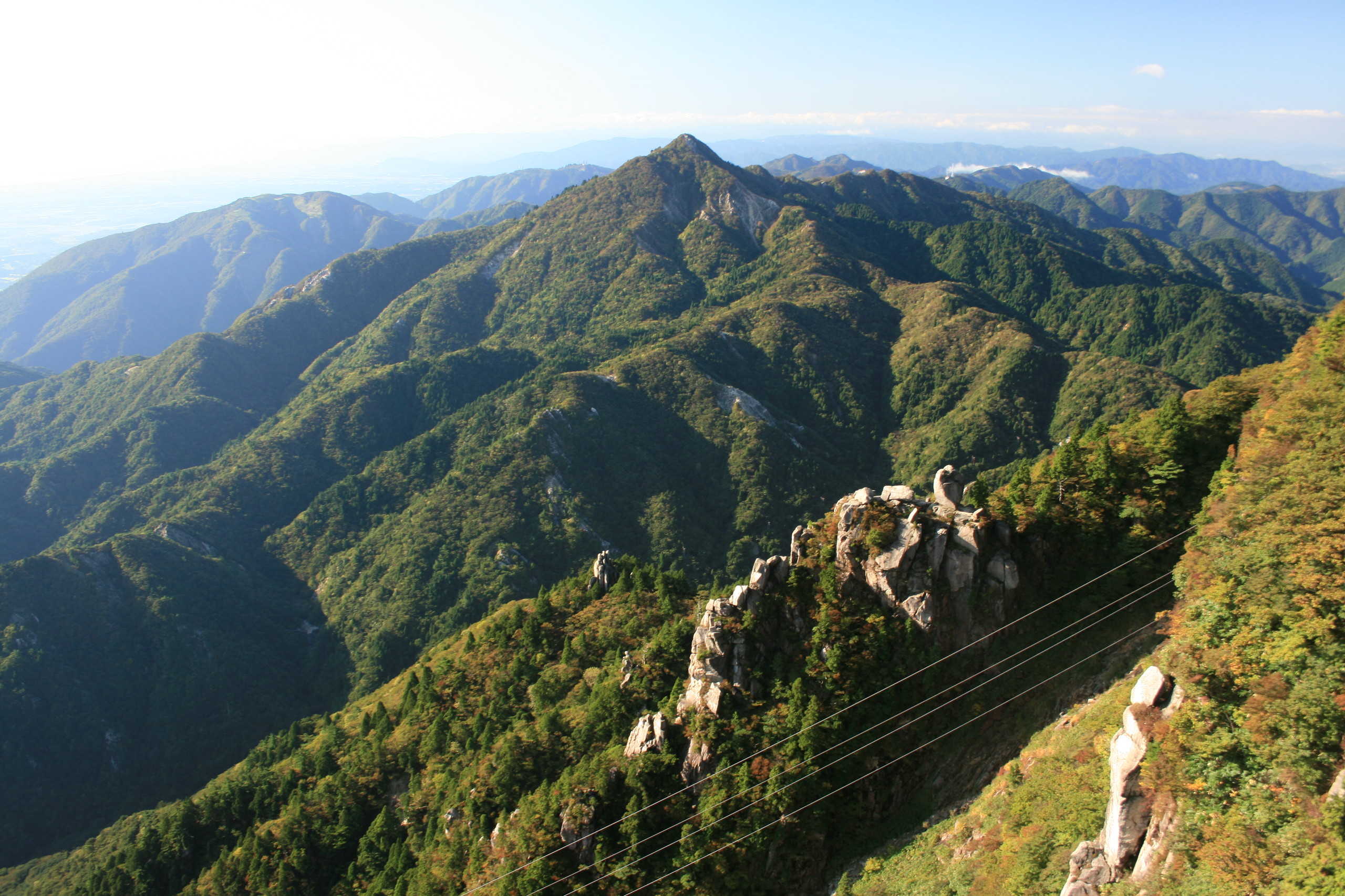 Mount Kama from Mount Gozaisho, Komono, Mie, Japan.